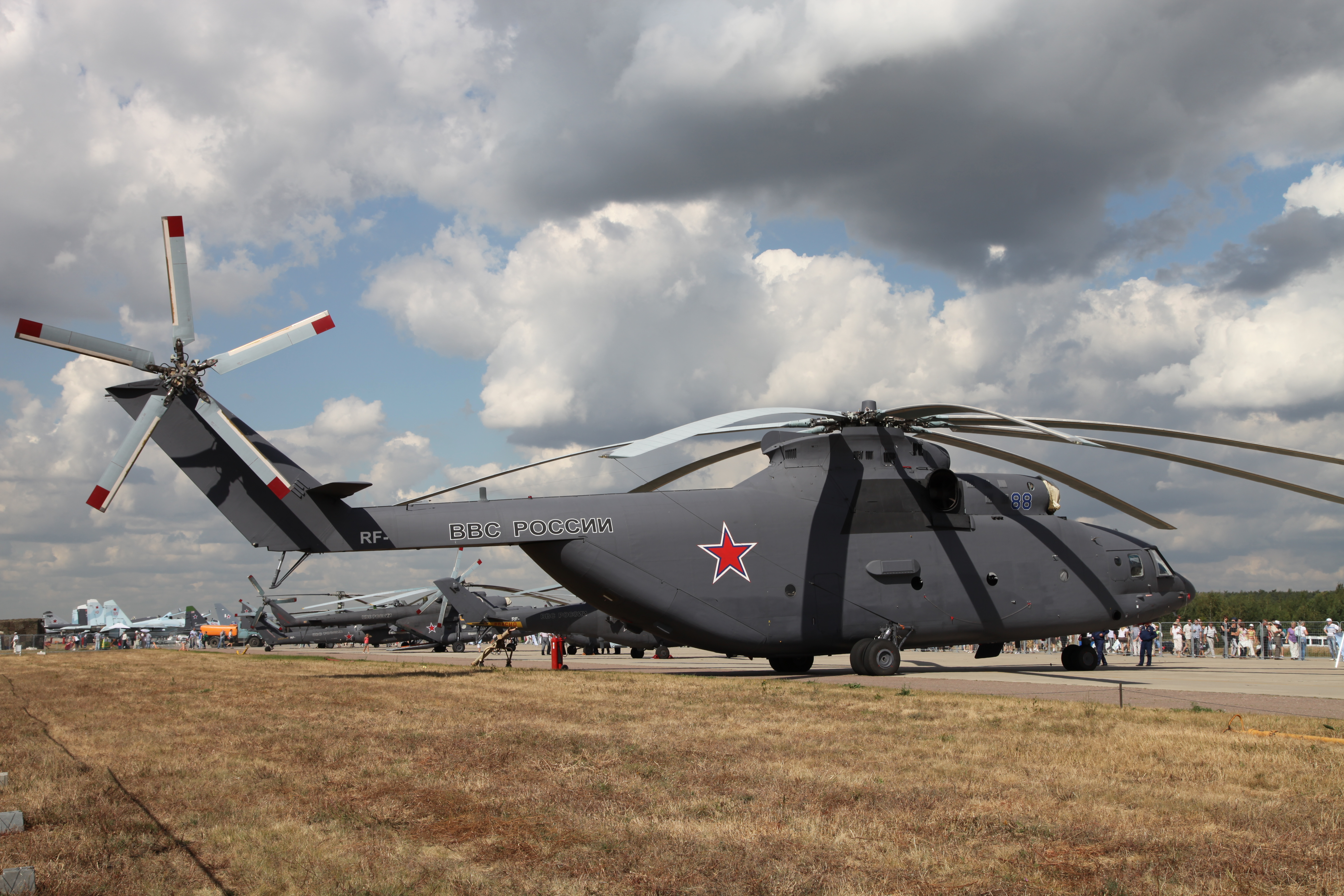 Aircraft at the Celebration of the 100th anniversary of Russian Air Force.